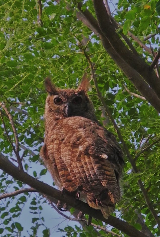 Great Horned Owl Bubo virginianus nacurutu, Los Llanos, Guárico, Venezuela